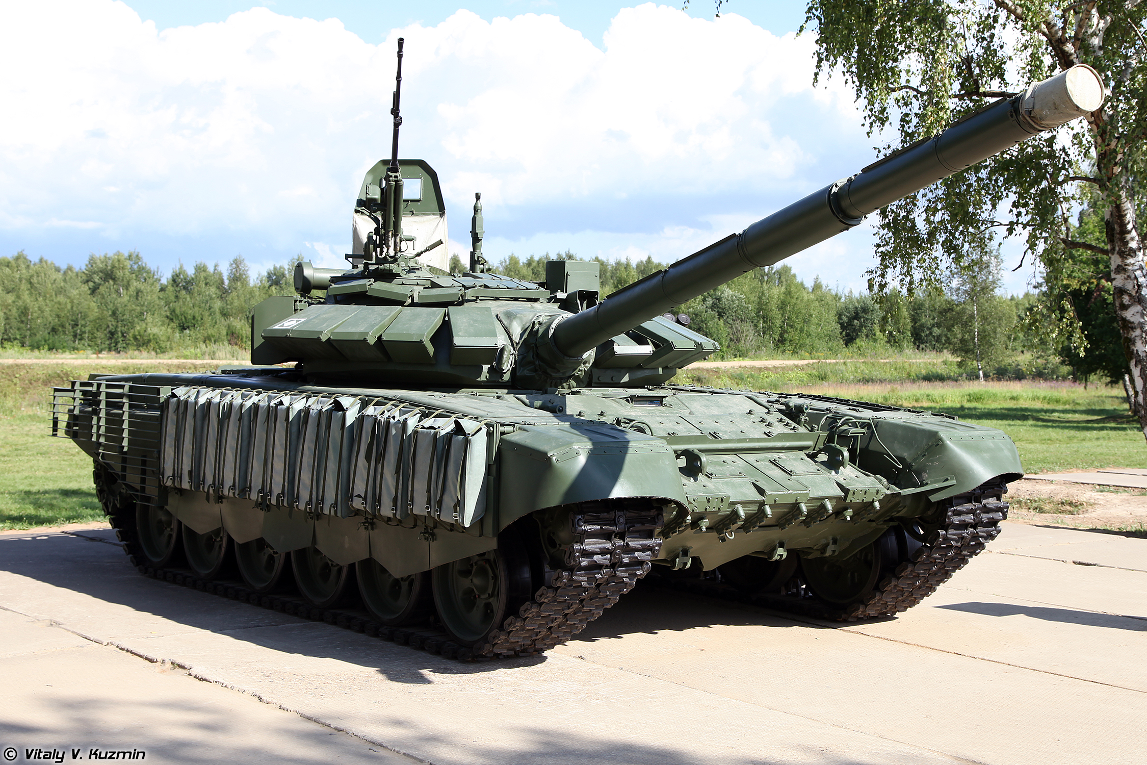 Walkaround of T-72B3 mod. 2016 that was fully unveiled for public during Tank biathlon 2017 in Alabino on static displays area.